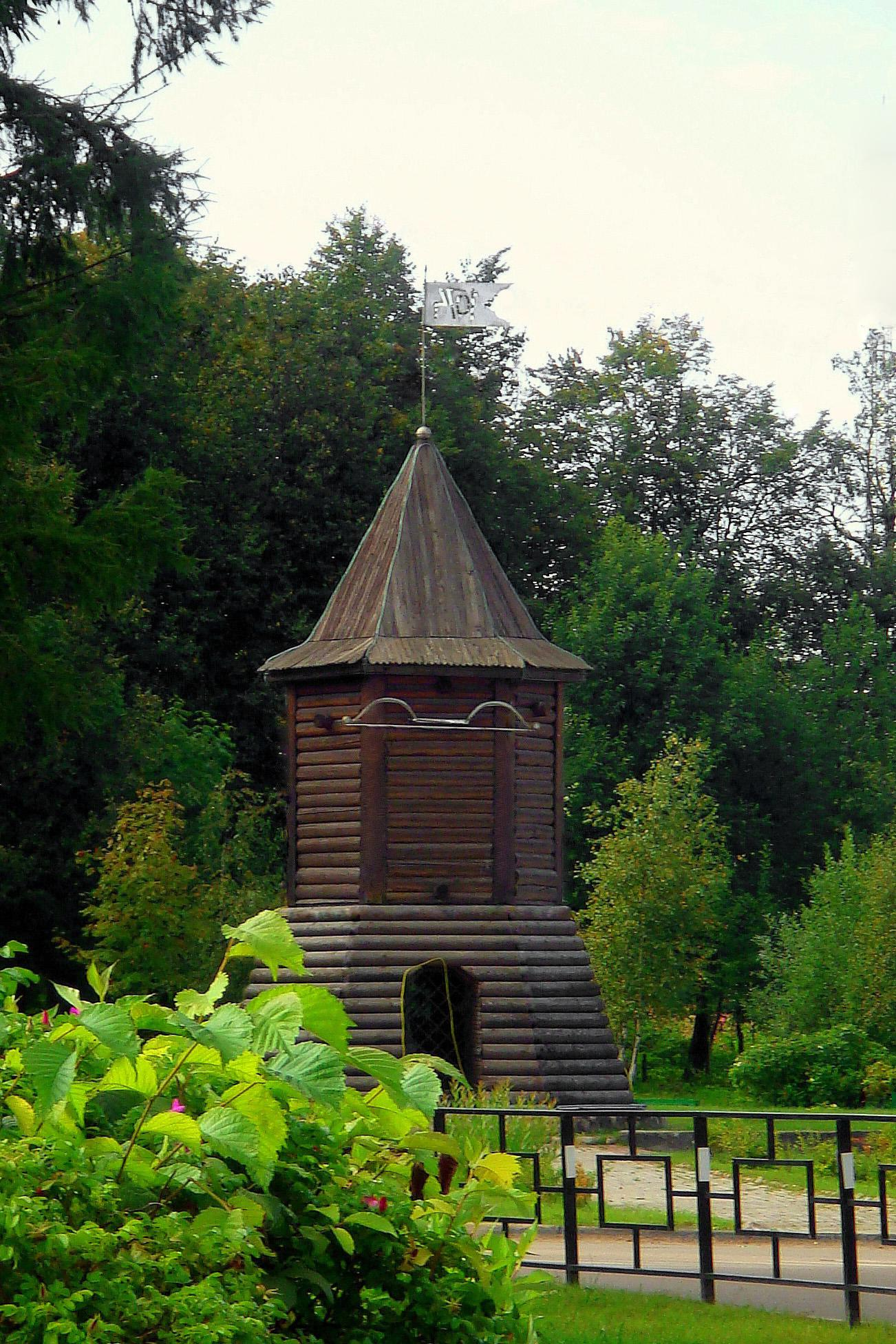 The Watchtower is a symbol of the city